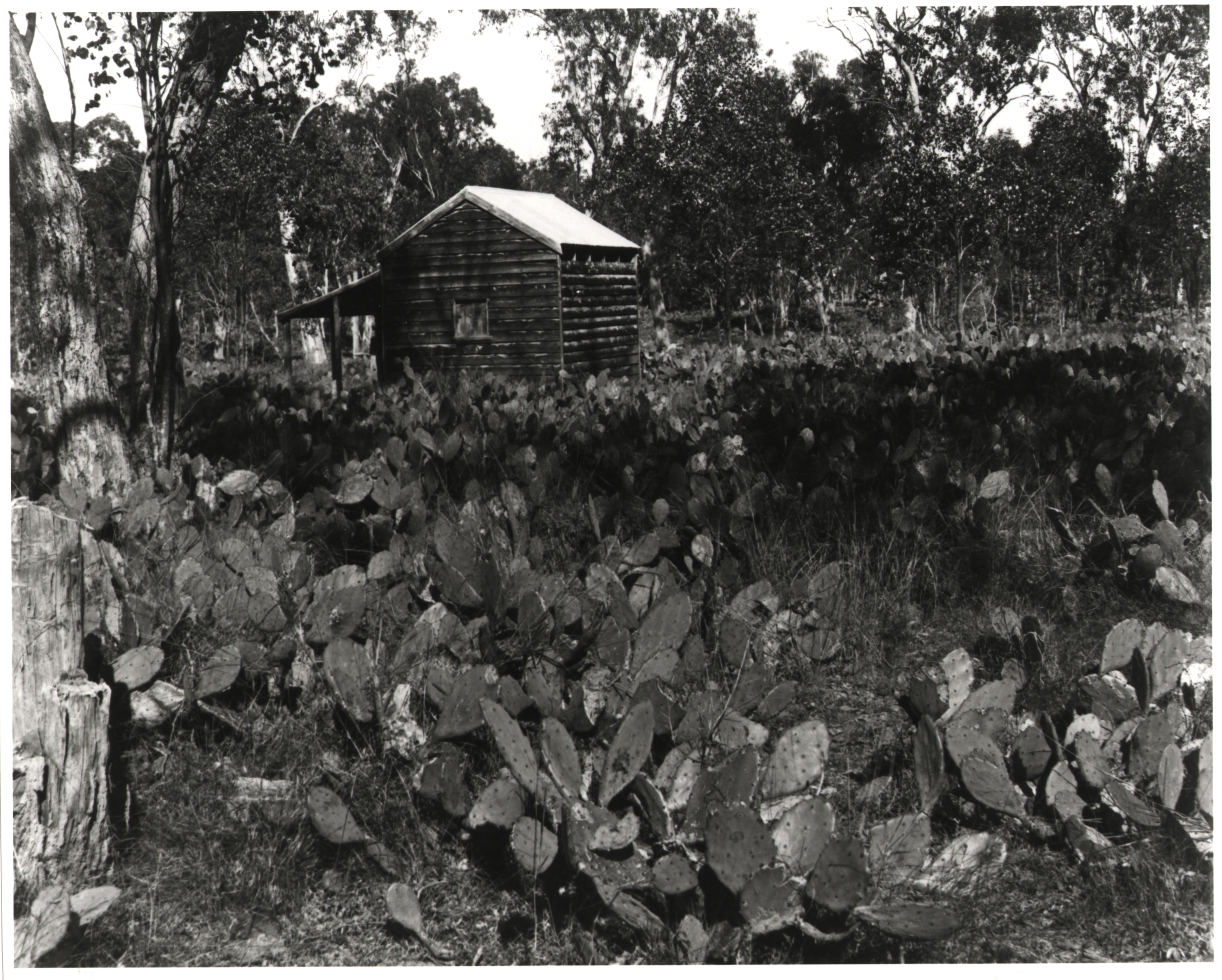 A field infected with prickly pear. Commonwealth Prickly Pear Board scientists introduced the larvae from the Argentinean moth Cactoblastis cactorum in 1926 and within ten years, the once-dense fields of common prickly pear lay rotting or had vanished completely.